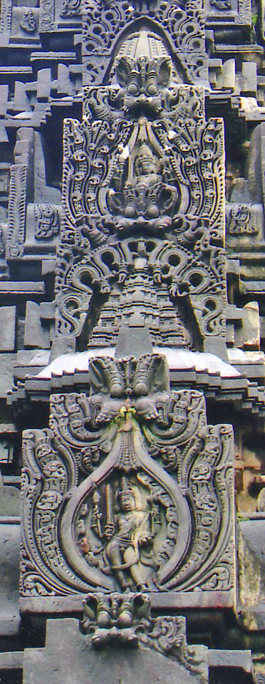 Photograph of Kirthimukha was taken by self (Dinesh Kannambadi) at Kedareswara Temple (also spelt Kedaresvara or Kedareshwara) in Balligavi, Shimoga district, Karnataka state, India in July 2006.